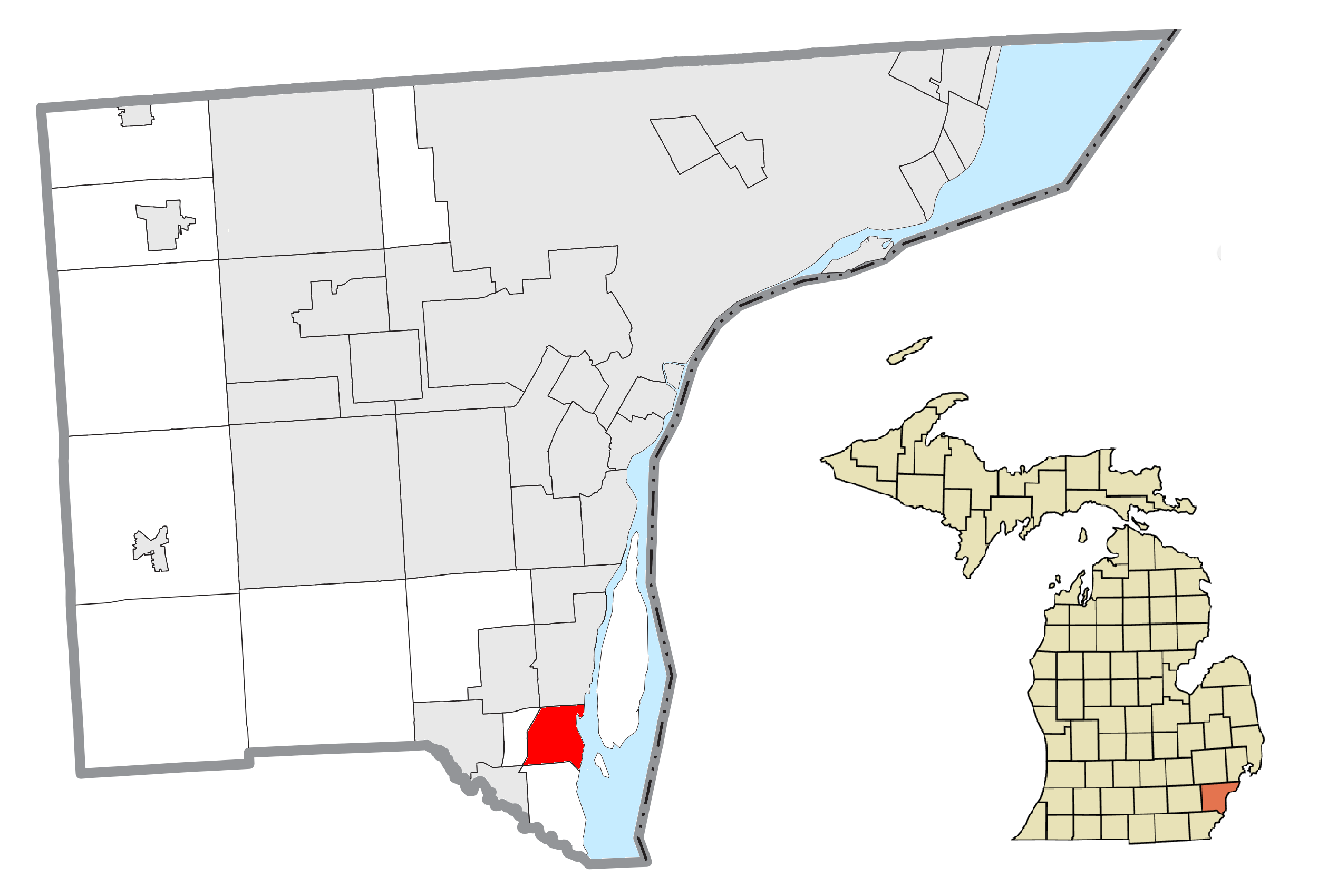 Gibraltar, MI